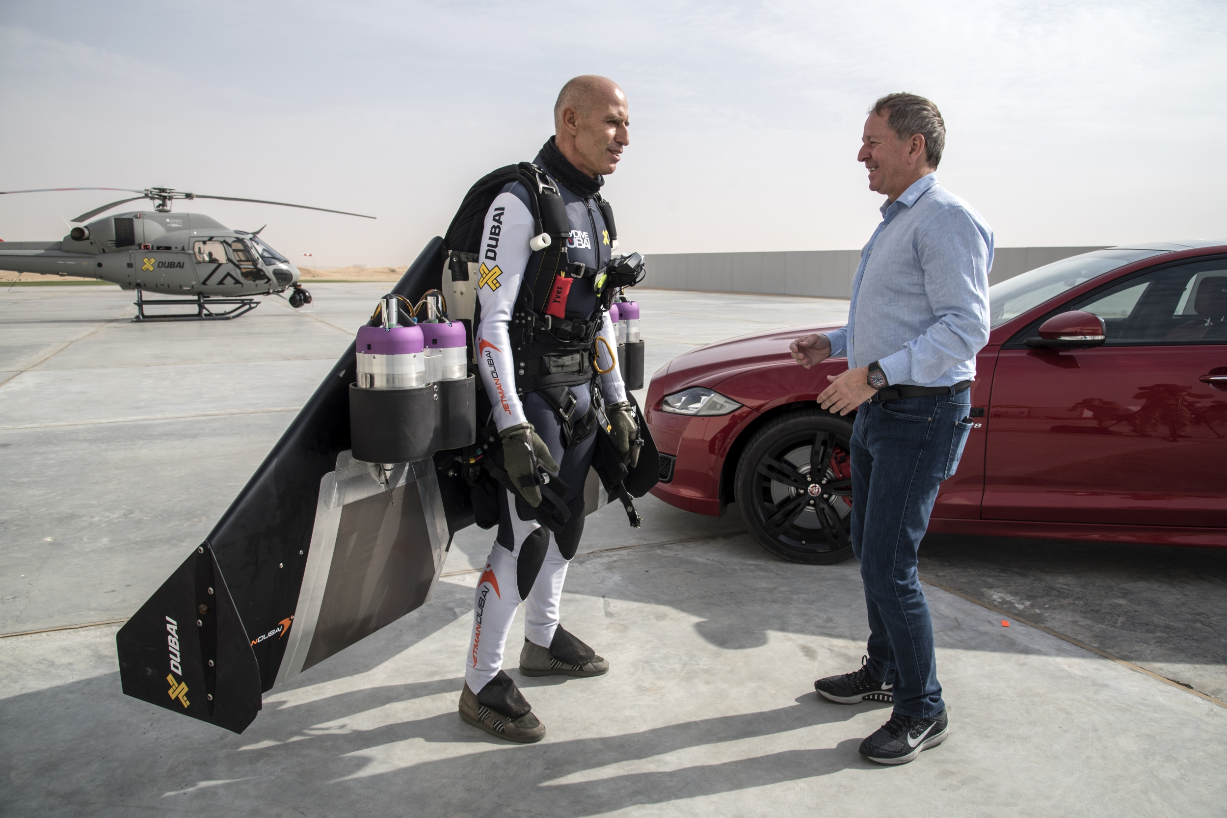 The Jetman Dubai pilot Yves Rossy, took on his first ever live race when he went head-to-head against a Jaguar XJR driven by former Formula One star Martin Brundle in a unique contest deep in the Dubai desert.